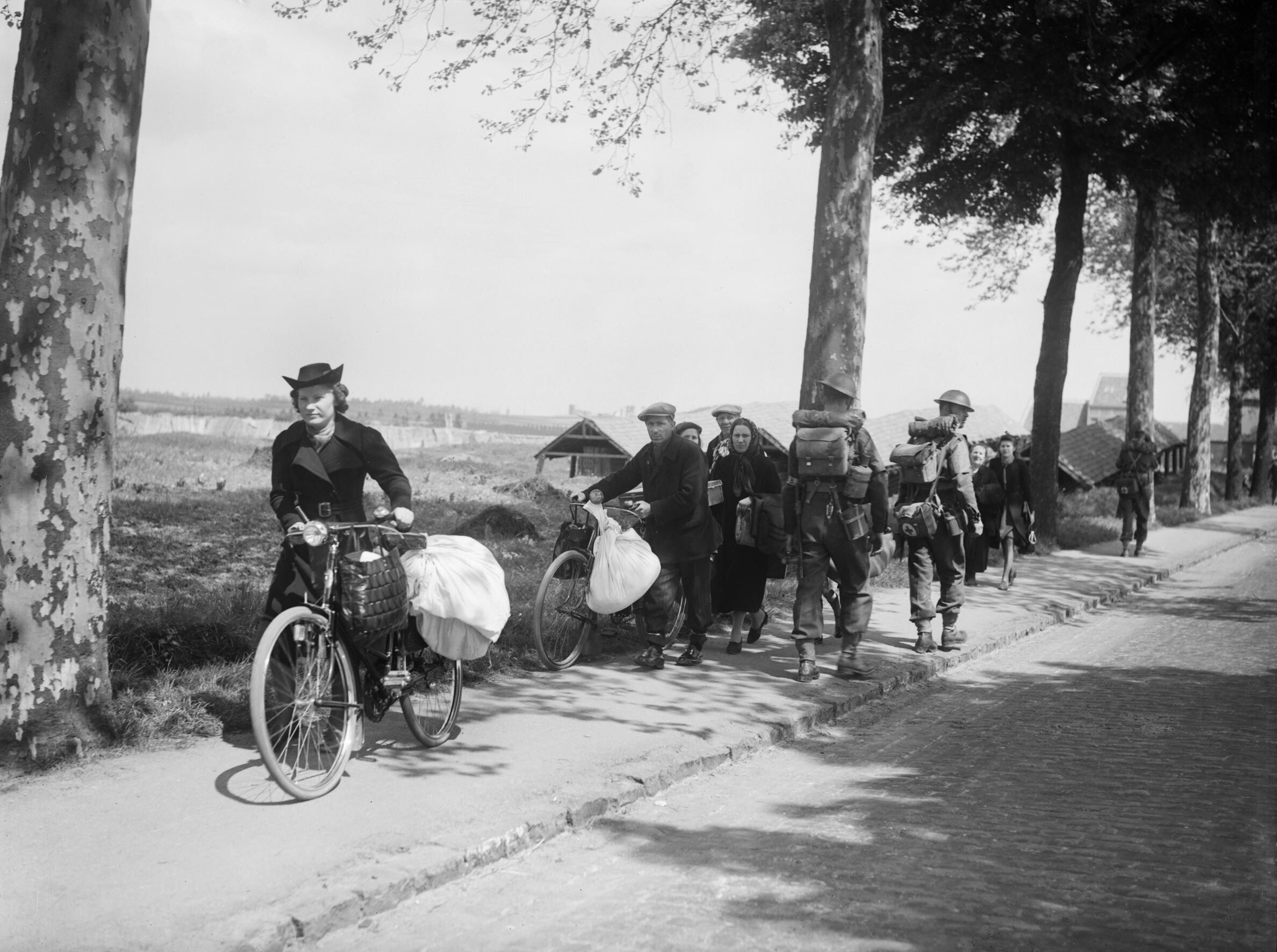 British troops and Belgian refugees on the Brussels-Louvain road, 12 May 1940. British troops and Belgian refugees on the Brussels-Louvain road, 12 May 1940.